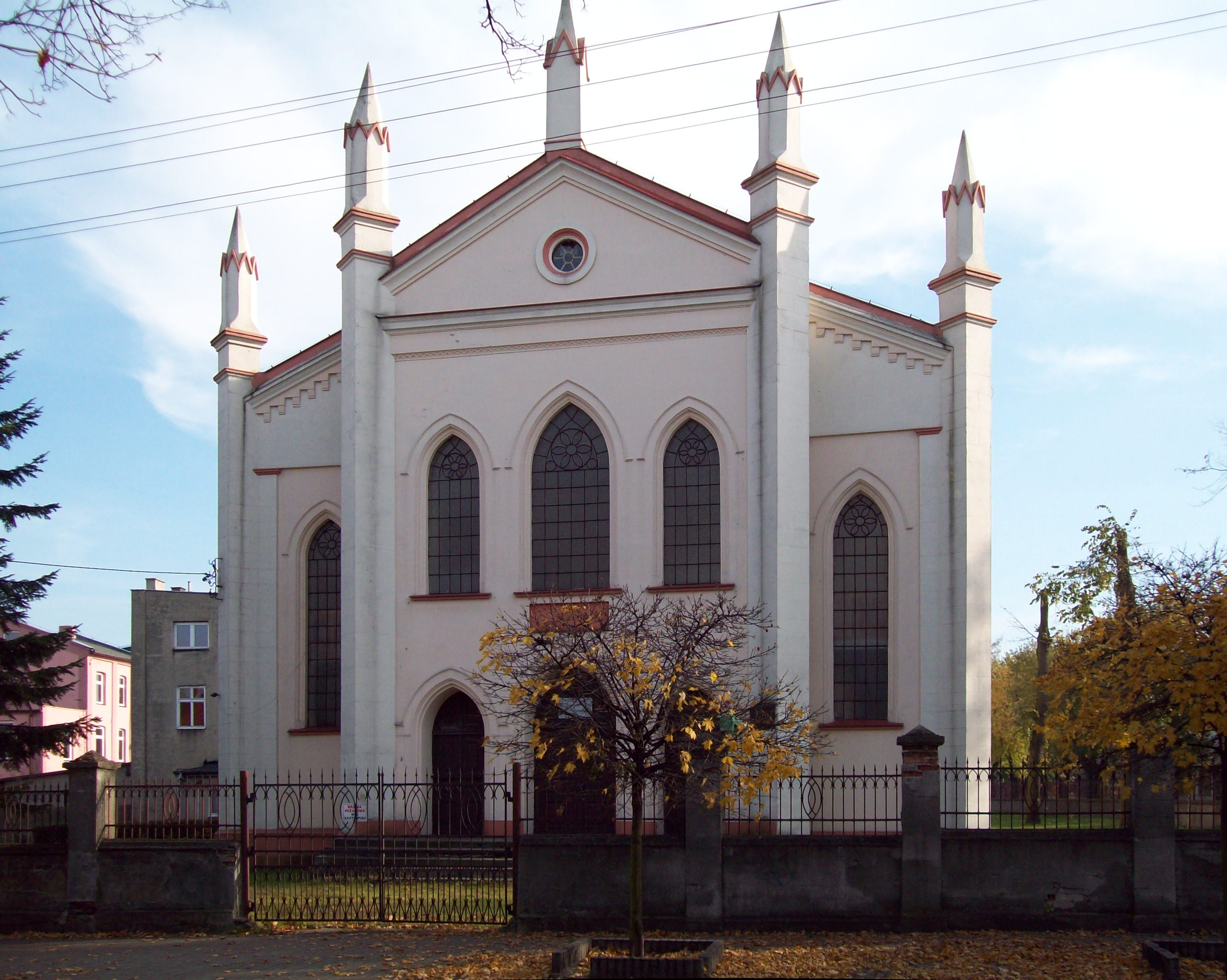 Baptist church in Zdunska Wola